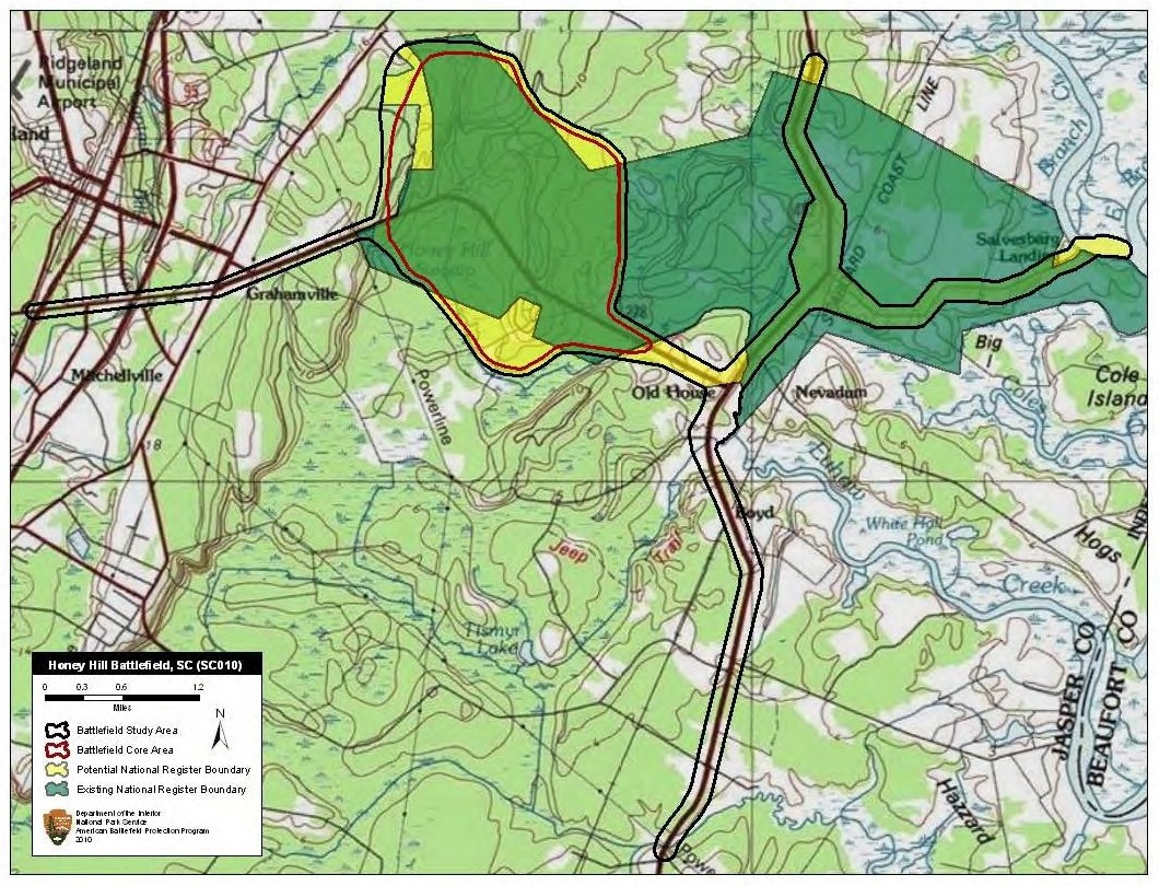 Map of battlefield core and study areas. The ABPP revised the 1993 Study Area to include several misdirected routes used by US forces while attempting to locate and destroy the Charleston & Savannah Railroad near Grahamville. The ABPP included these routes as part of the Study Area because this activity exhausted Federal troops and delayed their arrival at Honey Hill, providing Confederate forces extra time to prepare for battle. The Confederate approach route from the railroad to the engagement area was also included in the Study Area. The ABPP expanded the Core Area’s southern boundary to include the Euhaw Creek causeway where Confederate forces bombarded Federal forces attempting to cross the creek. Along the northern edge, the ABPP reduced the Core Area to better represent the range of Federal artillery positioned along Wood Road.